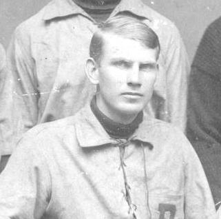 Nelson Zwinglius Graves as a member of the University of Pennsylvania baseball team in 1902.